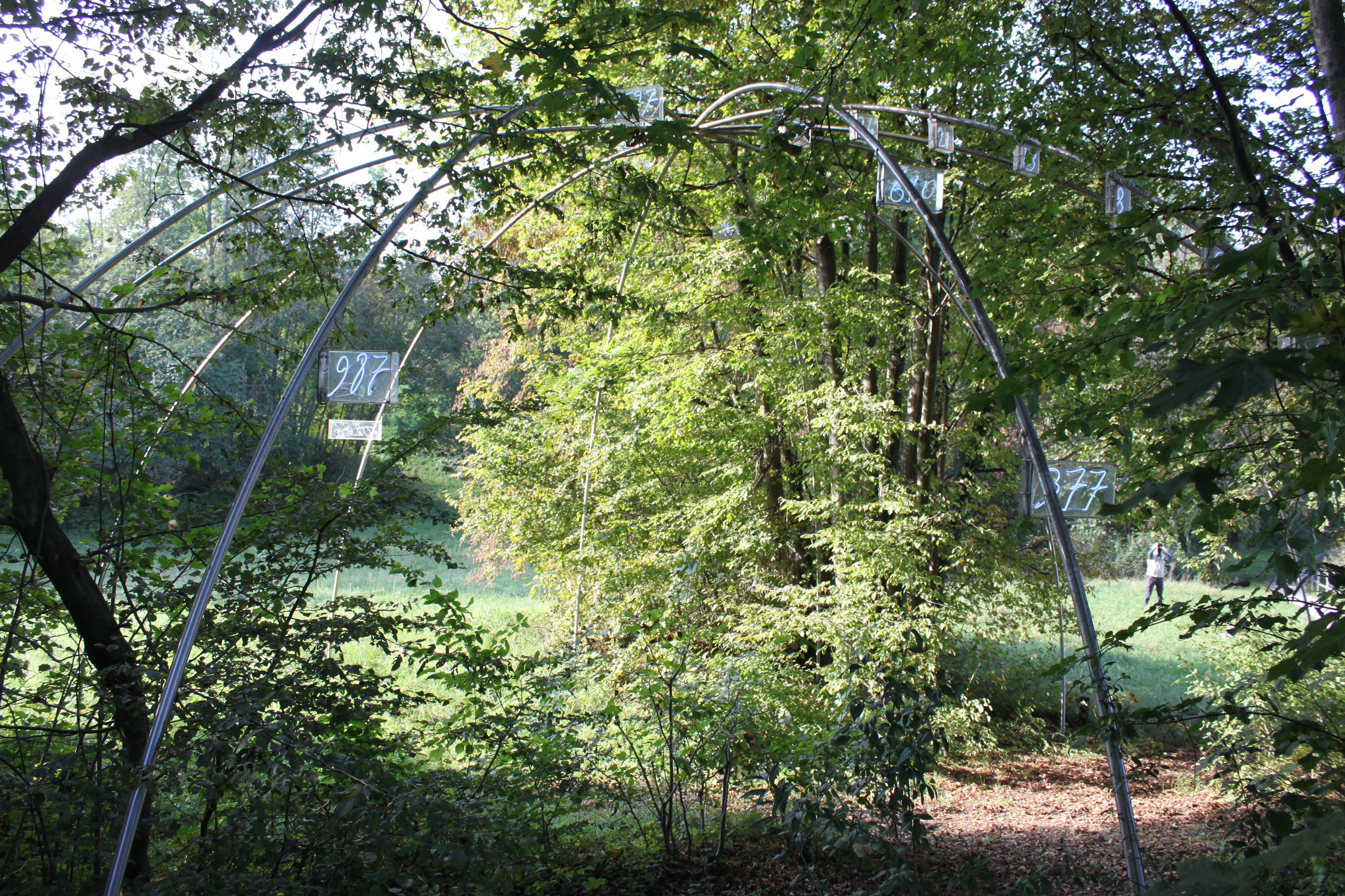 Numbers in the Woods by Mario Merz, Salzburg Art Project 2003